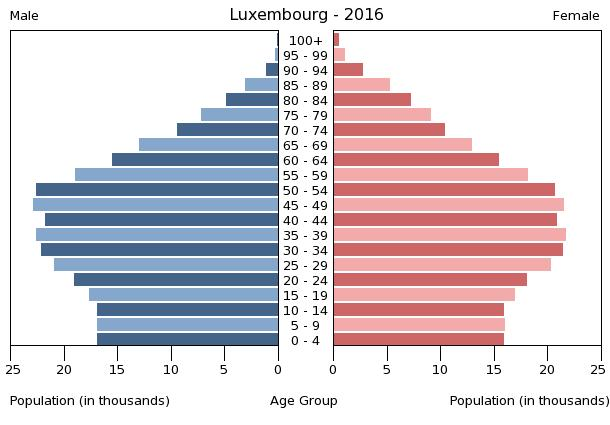 The population pyramid of Luxembourg illustrates the age and sex structure of population and may provide insights about political and social stability, as well as economic development. The population is distributed along the horizontal axis, with males shown on the left and females on the right. The male and female populations are broken down into 5-year age groups represented as horizontal bars along the vertical axis, with the youngest age groups at the bottom and the oldest at the top. The shape of the population pyramid gradually evolves over time based on fertility, mortality, and international migration trends.